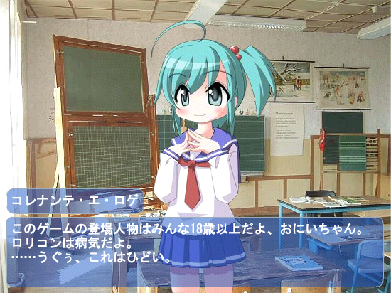 Original character in a adventure game